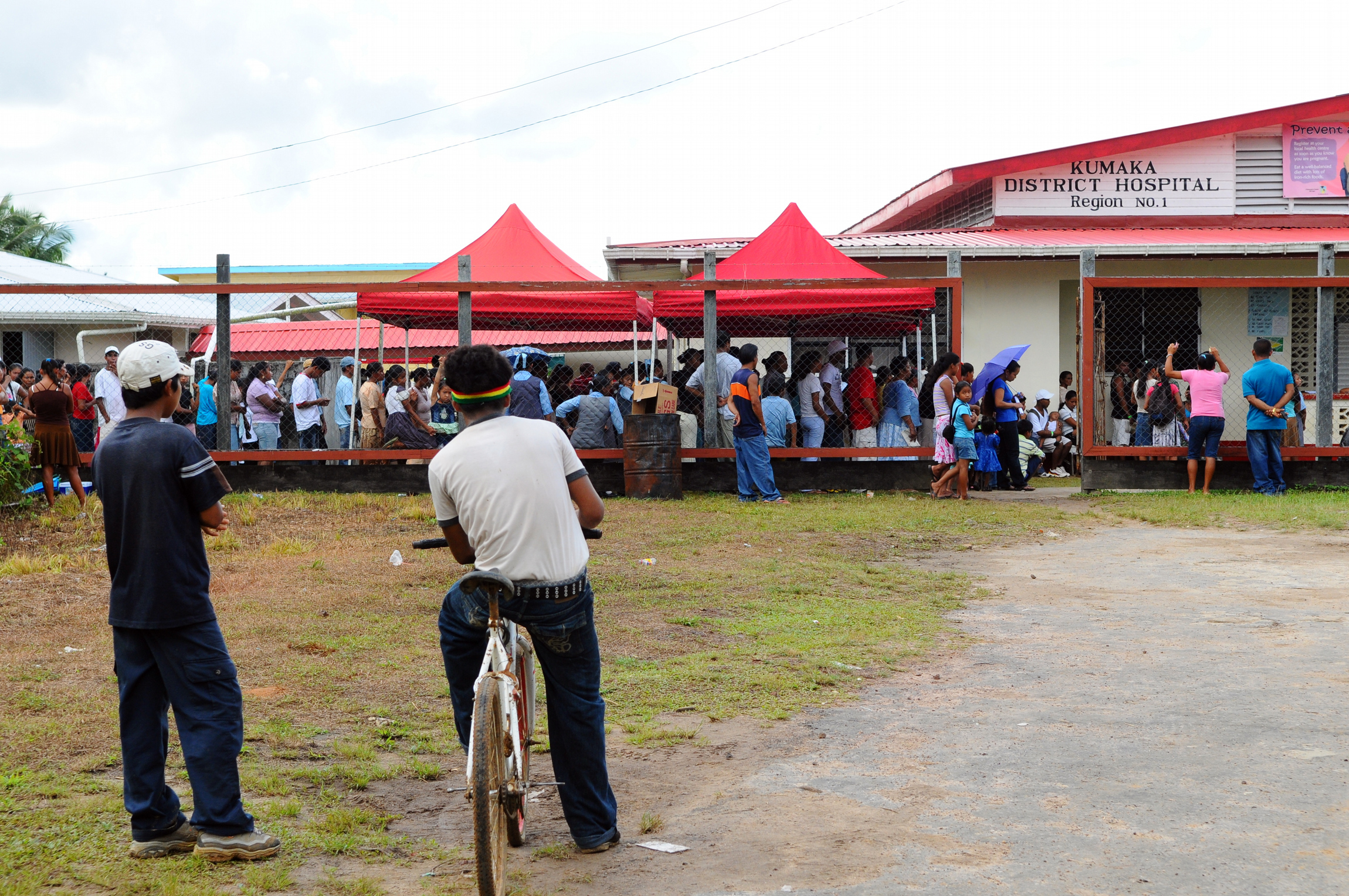 SANTA ROSA, Guyana (Nov. 19, 2008) Locals watch as a line forms to see medical personnel from the amphibious assault ship USS Kearsarge (LHD 3) outside the Kumaka District Hospital. Kearsarge is supporting the Caribbean phase of Continuing Promise 2008, an equal-partnership mission between the United States, Canada, the Netherlands, Brazil, Nicaragua, Colombia, Dominican Republic, Trinidad and Tobago and Guyana. (U.S. Navy photo by Mass Communication Specialist Seaman Apprentice Joshua Adam Nuzzo/Released)